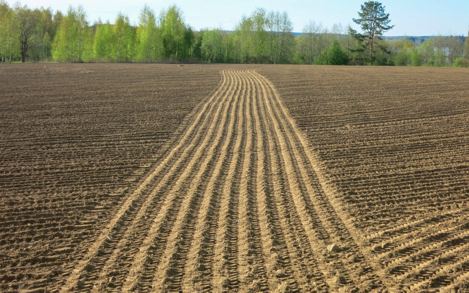 A sample of spring fieldwork by diligent and correct Finnish farmers (Ruovesi, Finland)